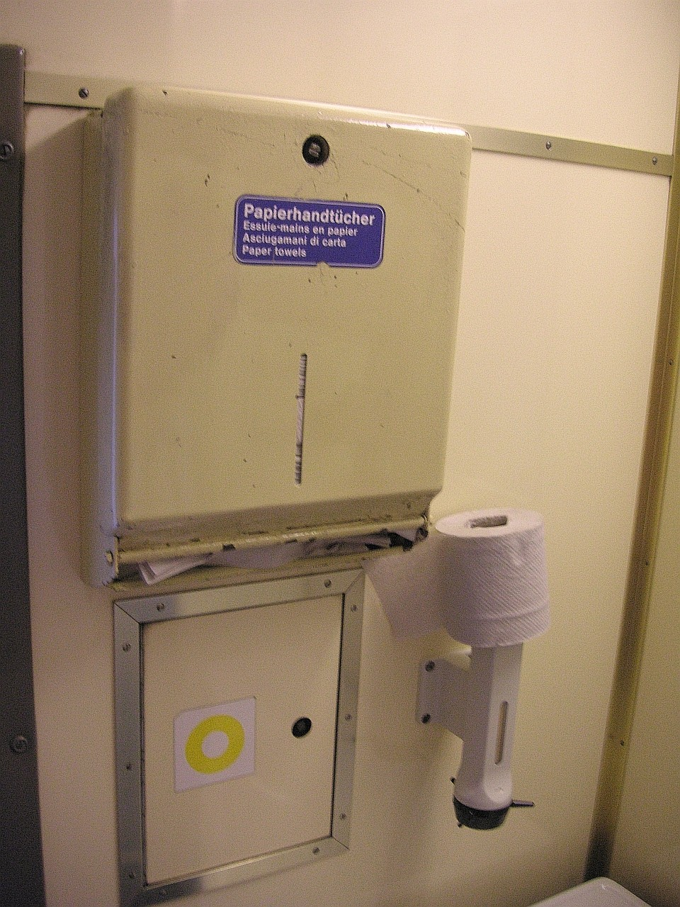 An old-fashioned toilet facility on board an Austrian passenger train to Vienna. Photo by KF, 26 April 2005.